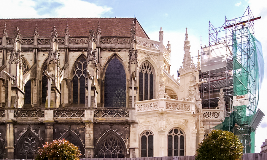 Chevet of Saint-Pierre church in Caen, France, while being restored in 2006.